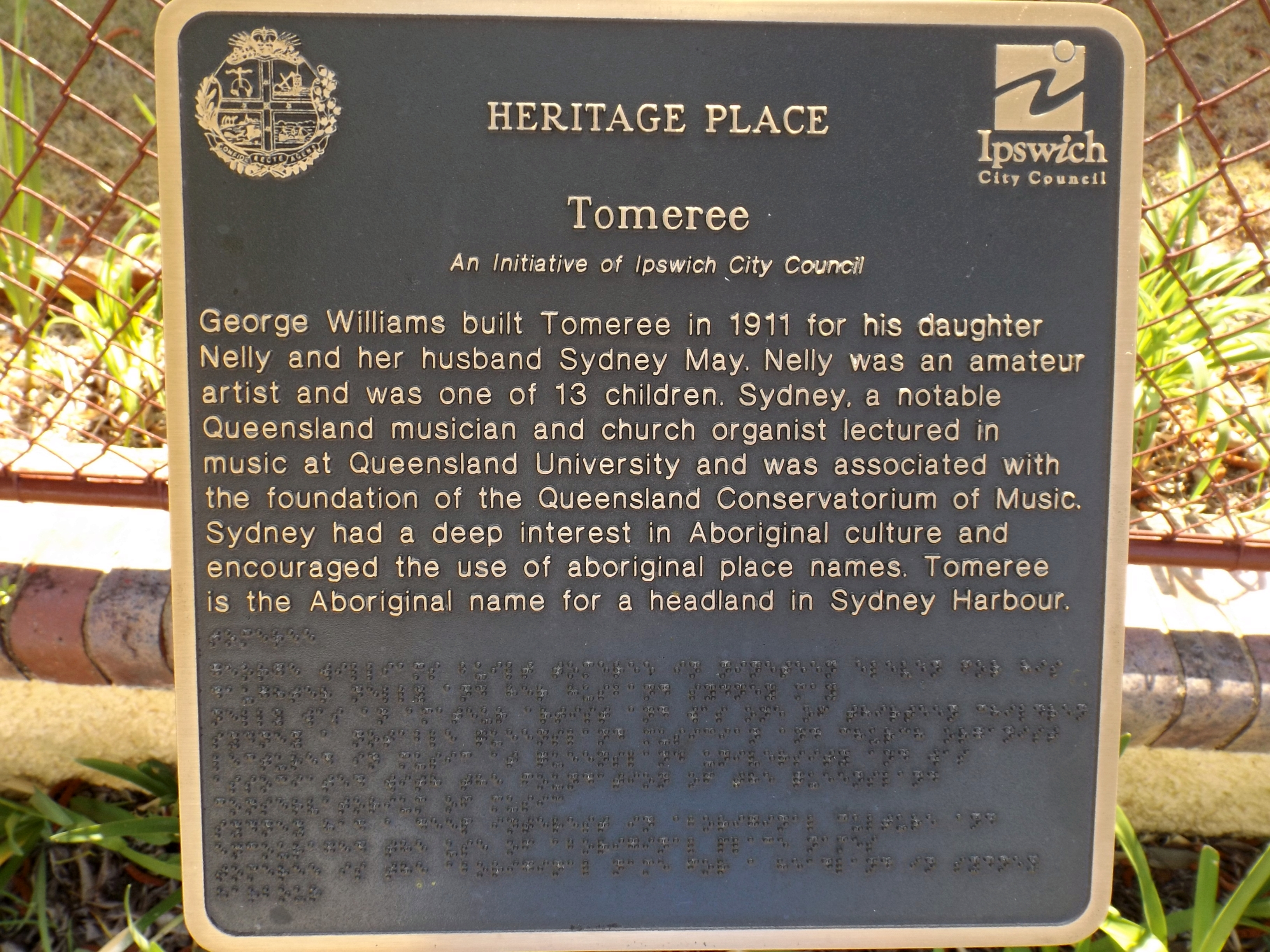 Photo of a plaque at To-Me-Ree residence in Ipswich, Queensland, Australia.